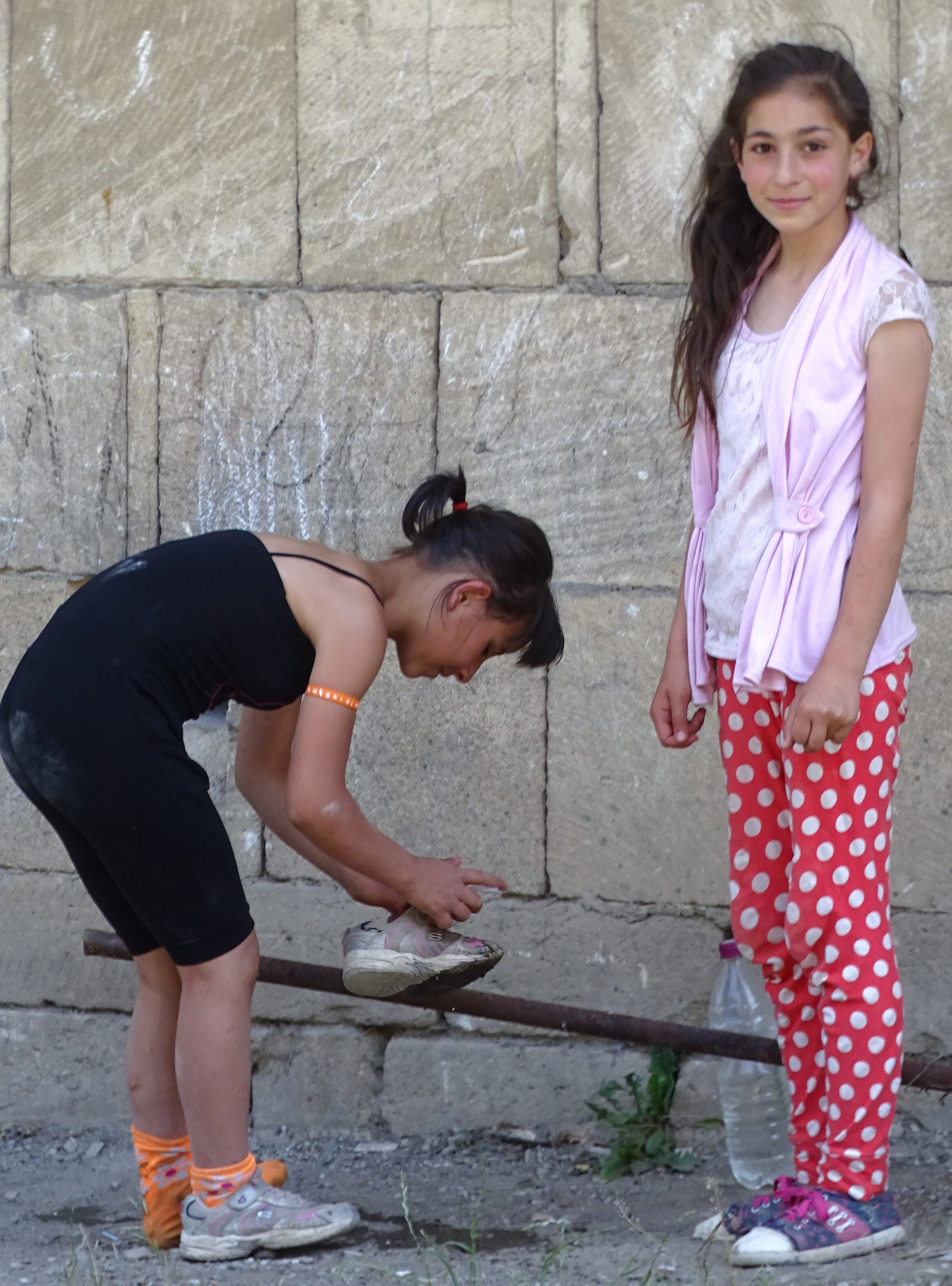 Young Girls in Street - Shushi - Nagorno-Karabakh